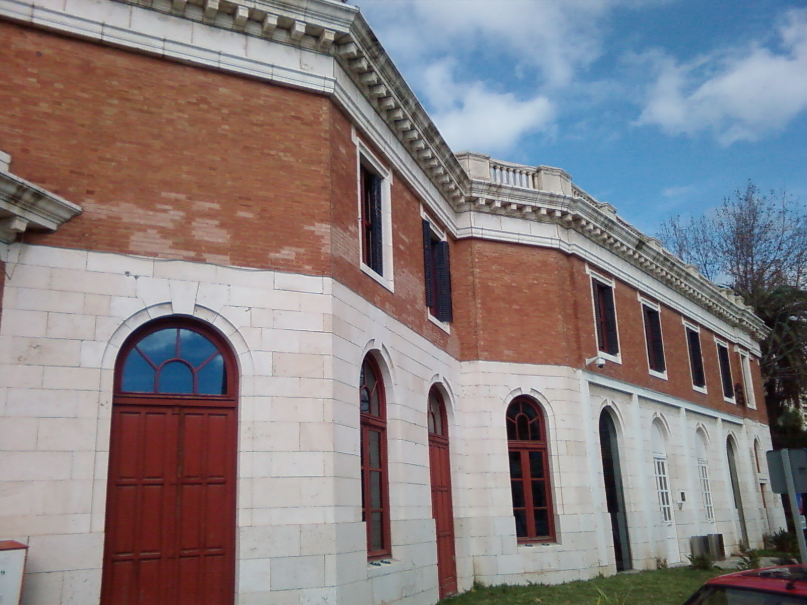 Former suburban railway station's building in the Port of Málaga, Spain. Headquarters of the Institute of Portuary Studies